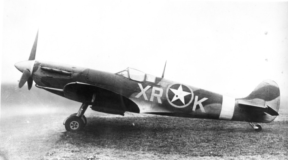 PictionID:40971522 - Title:Spitfire Supermarine Spitfire Mk.Vb 334FS, 4FG pilot Steve Pisanos England 1942 - Catalog:15_002850 - Filename:15_002850.tif - PictionID:40971474 - Title:Lancer Republic YP-43 - Catalog:15_002846 - Filename:15_002846.tif - Image from the Charles Daniels Photo Collection album "US Army Aircraft."----PLEASE TAG this image with any information you know about it, so that we can permanently store this data with the original image file in our Digital Asset Management System.----SOURCE INSTITUTION: San Diego Air and Space Museum Archive